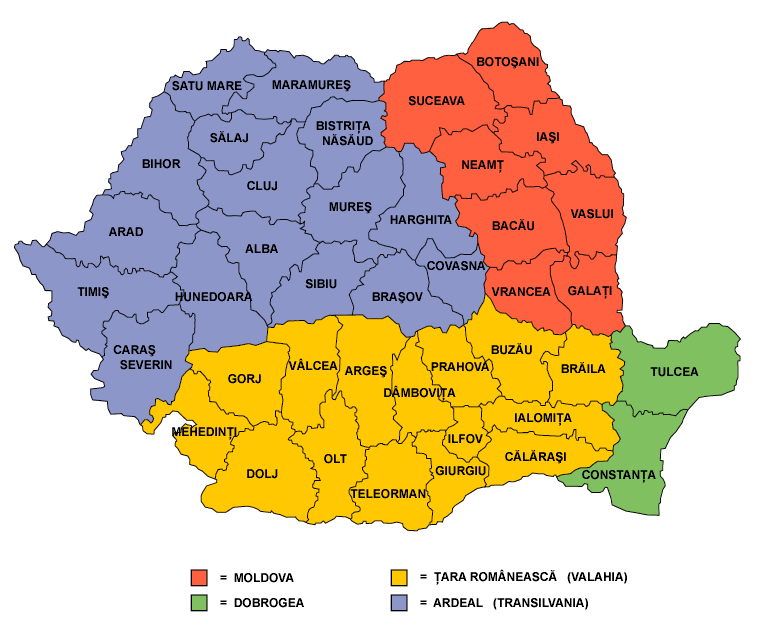 The four historic regions of Romania. This image is created by me, Mihai Stan and released in the Public Domain. More maps available at - in both PNG and SVG format.